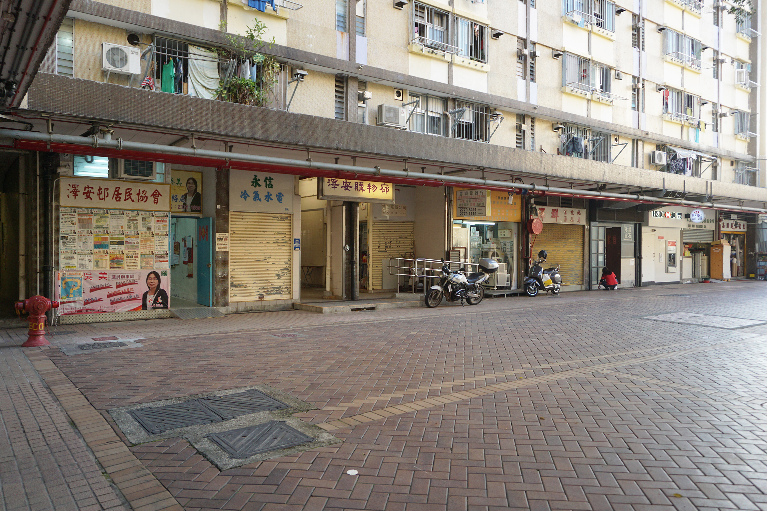 Chak On Estate in Tai Wo Ping, Hong Kong.